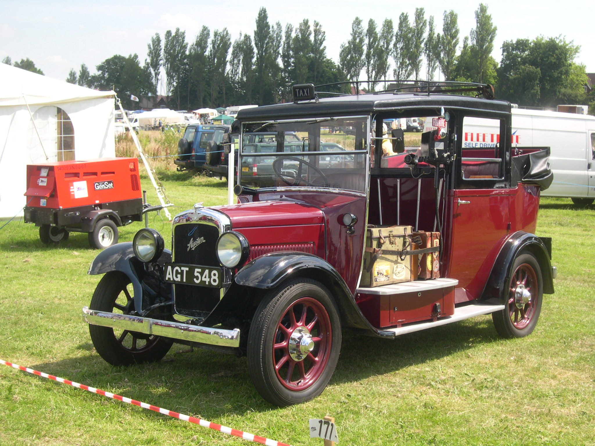 1933 Austin 12 4 Taxi High Lot DVLA says 1631 cc, first registered 4 May 1933.